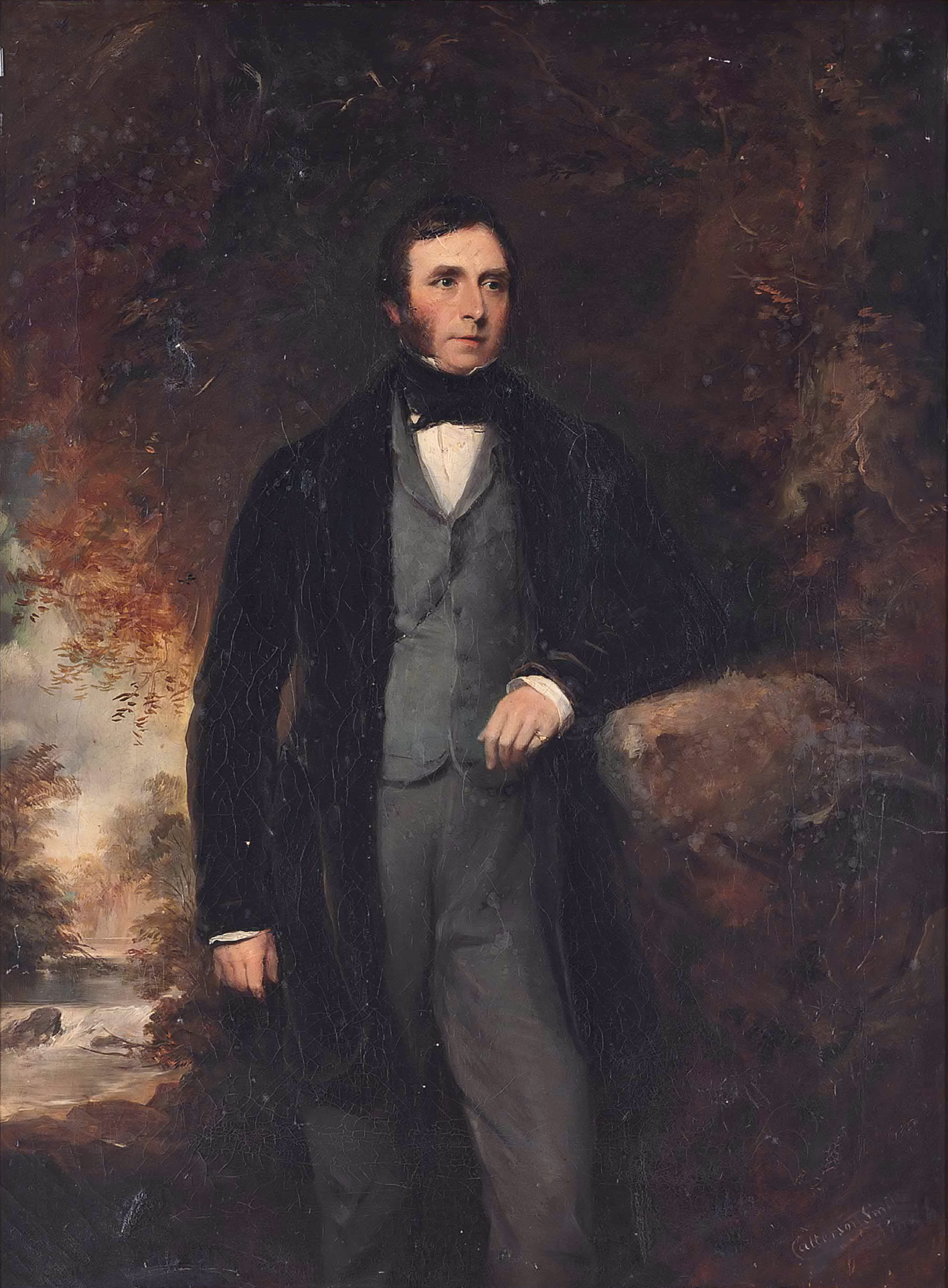 Henry Prittie, 3rd Baron Dunalley (1807-1885) oil on canvas 67 x 49.9 cm signed b.r.: Catterson Smith/Pinxt inscribed verso: H. Prittie Esq./Catterton Smith pinxt. 1851